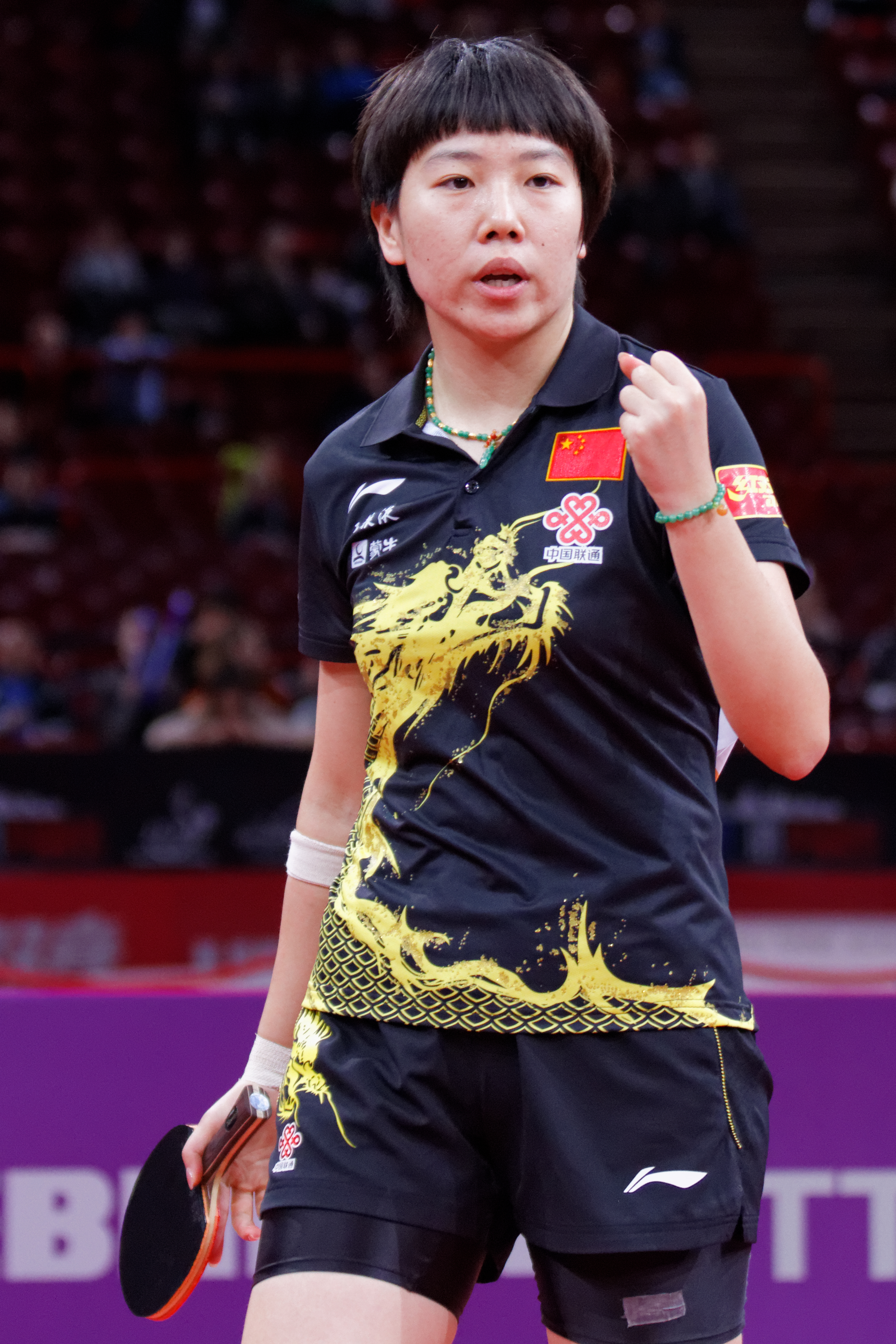 2013 World Table Tennis Championships, Paris. Women's Doubles Finals.